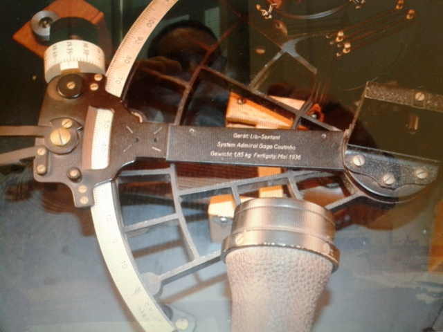 Details of the optical parts of the "Gago Coutinho System" sextant